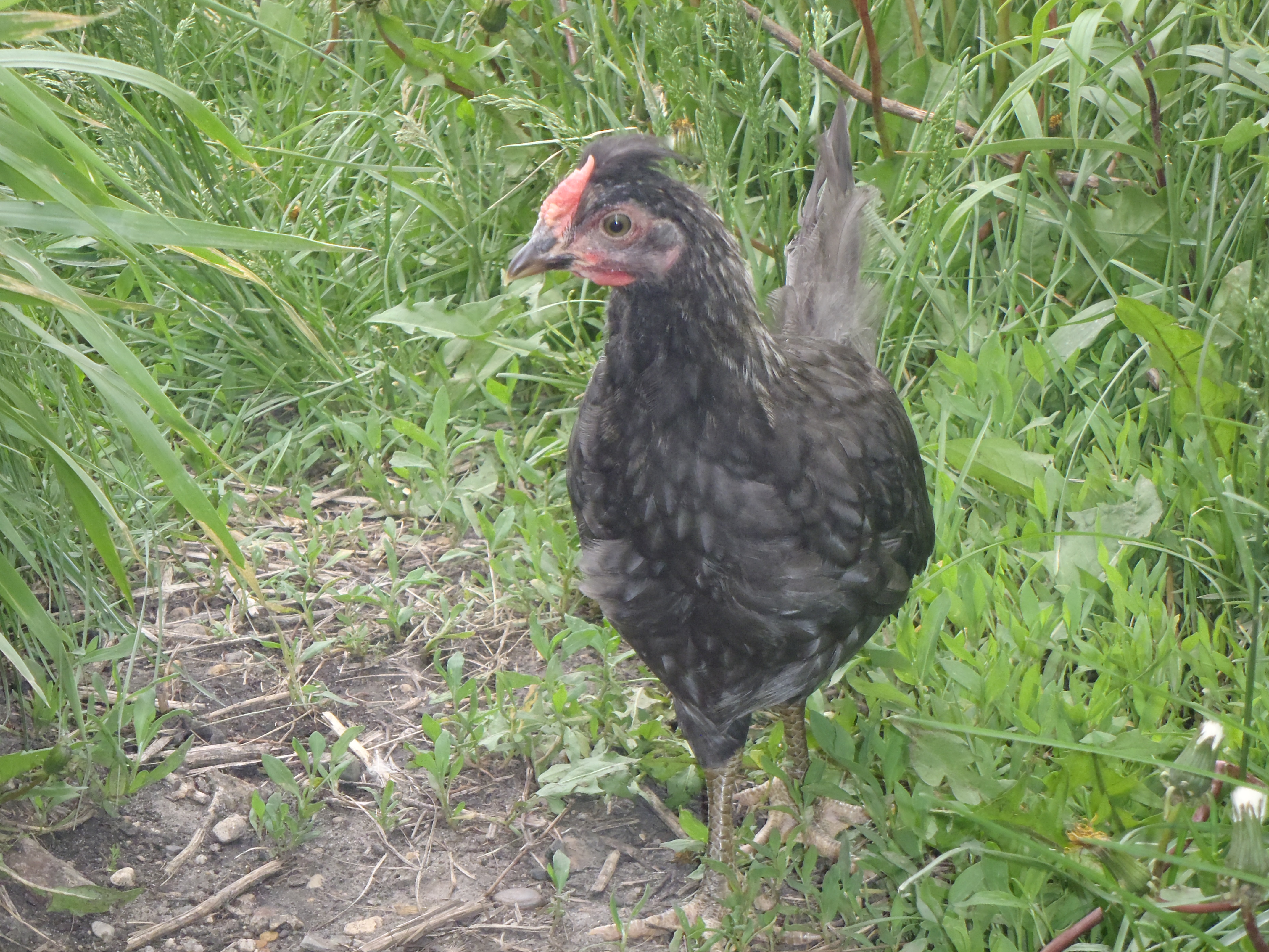 A mostly blue Icelandic cockerel